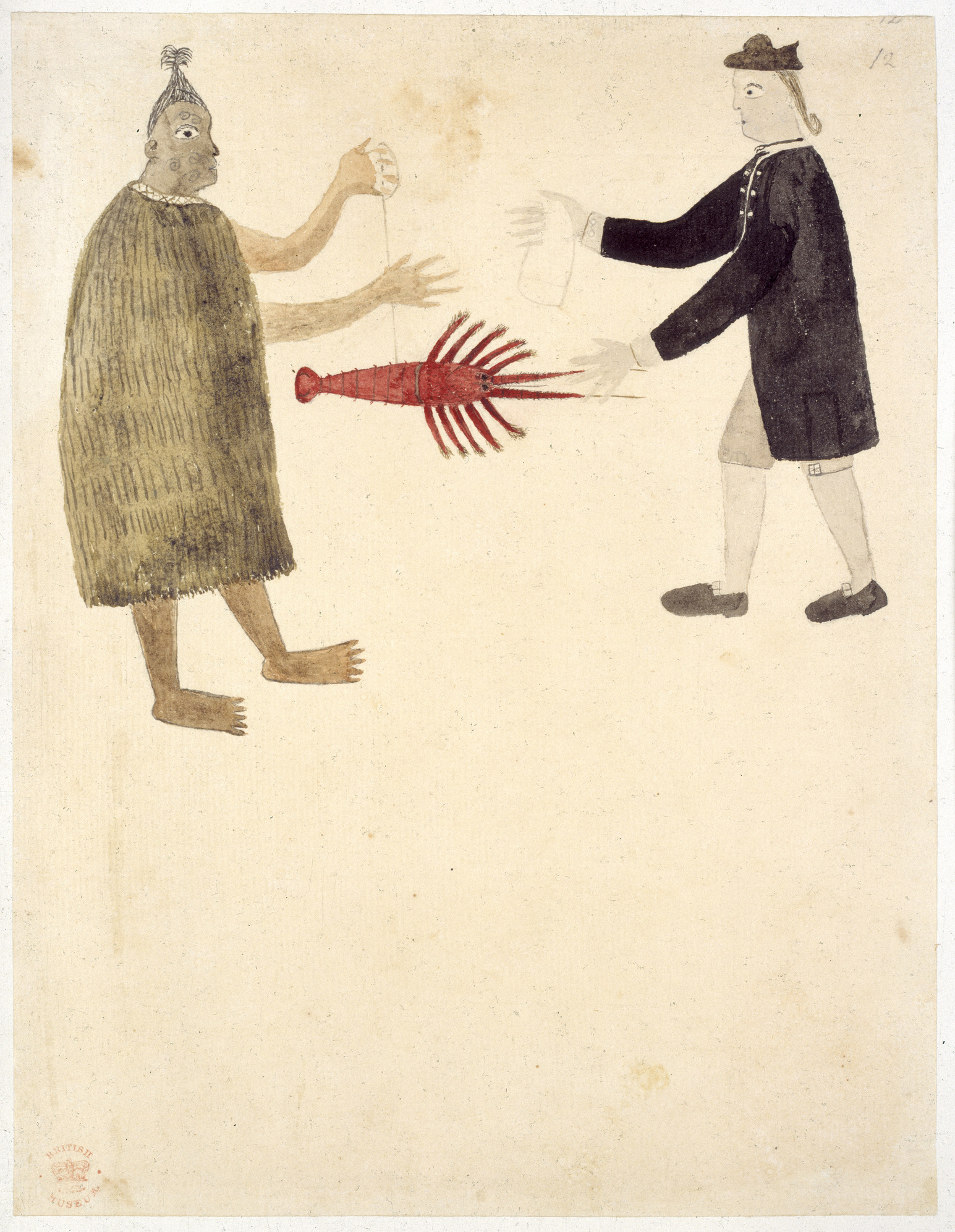 Maori bartering a crayfish [Drawing no.12] A Maori bartering a crayfish with an English naval officer.